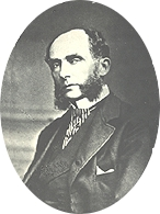 Dupetit Thouars in civilian clothes.